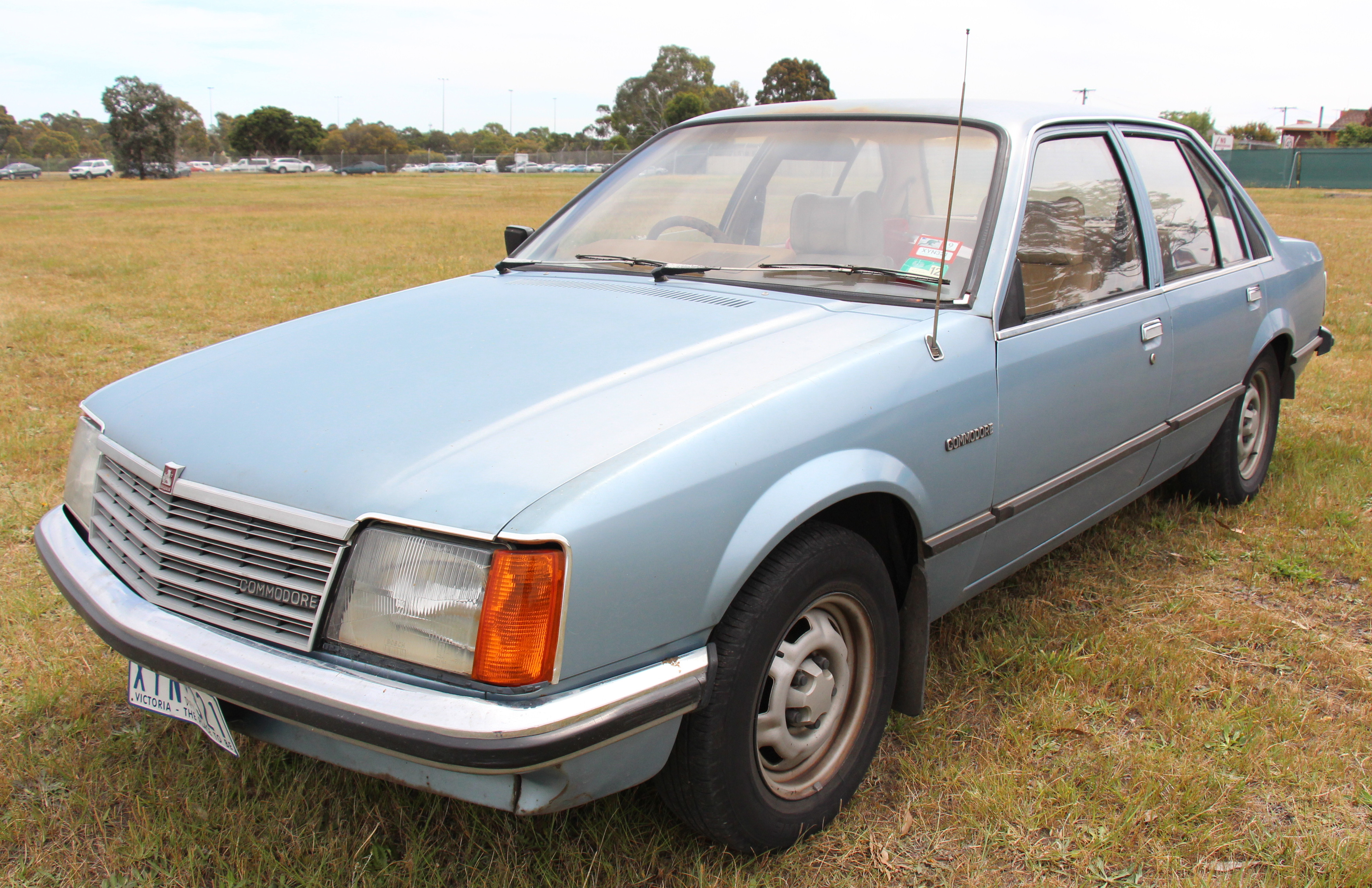 The VB Commodore was built from October 1978-March 1980 The VB was the first of 37 years of Commodores, the Australian built VB was a complete new car, it replaced the HZ Holden, now a smaller car because of the global oil crisis, so more fuel efficent. It was based on the German Opel Reckford and Senator. There were no long wheelbase Statesman or Utility versions so the old Kingswood shape continued on to fill the gap, the facelifted HZ; the WB. Three levels of trim were available; Base; 2850cc, 4 spd manual, body coloured tail panel, silver dash, vinyl trim, steel wheels SL; 3300cc, 3 spd auto, silver tail panel, rosewood dash, cloth trim, wheel trims, vertical accents in grille, twin mirrors. SLE; 4200cc, 3 spd auto, black tail panel, walnut dash, velour trim, alloy wheels, blacked out grille, headlight wipers, 5.0 option. A Wagon was introduced in July 1979, available in base or SL. Engines; Red 6 cyls; 64kw 2850 or 71kw 3300 V8s; 87kw 4200 or 114kw 5000